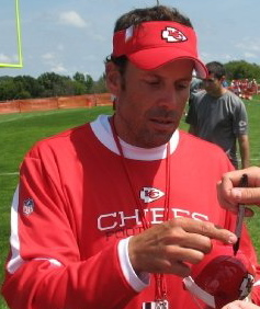 Kansas City Chiefs head coach Todd Haley at summer training camp, 2009.